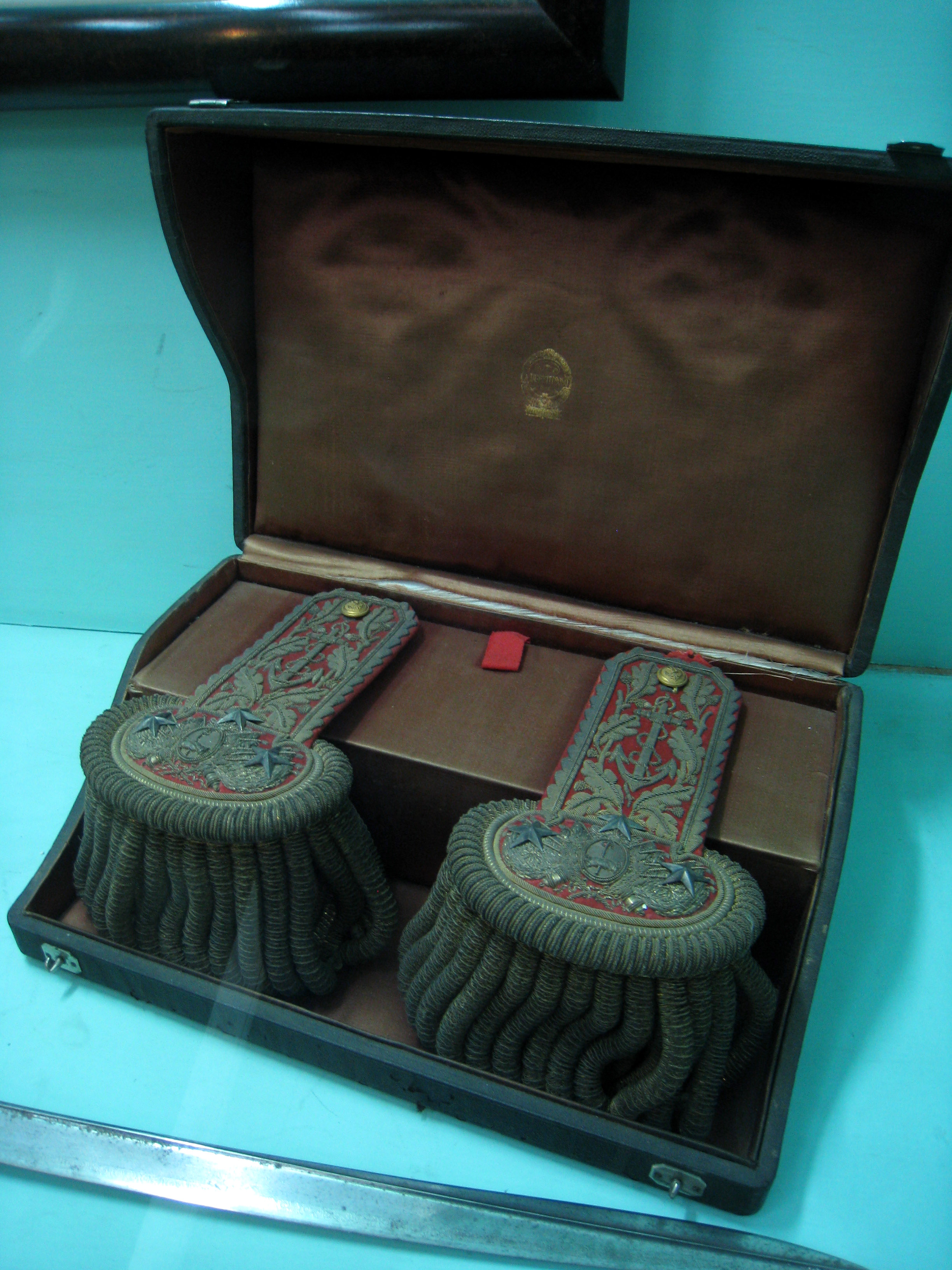 Epaulets and the point of a sword on display in the maritime museum in Tigre, Argentina.